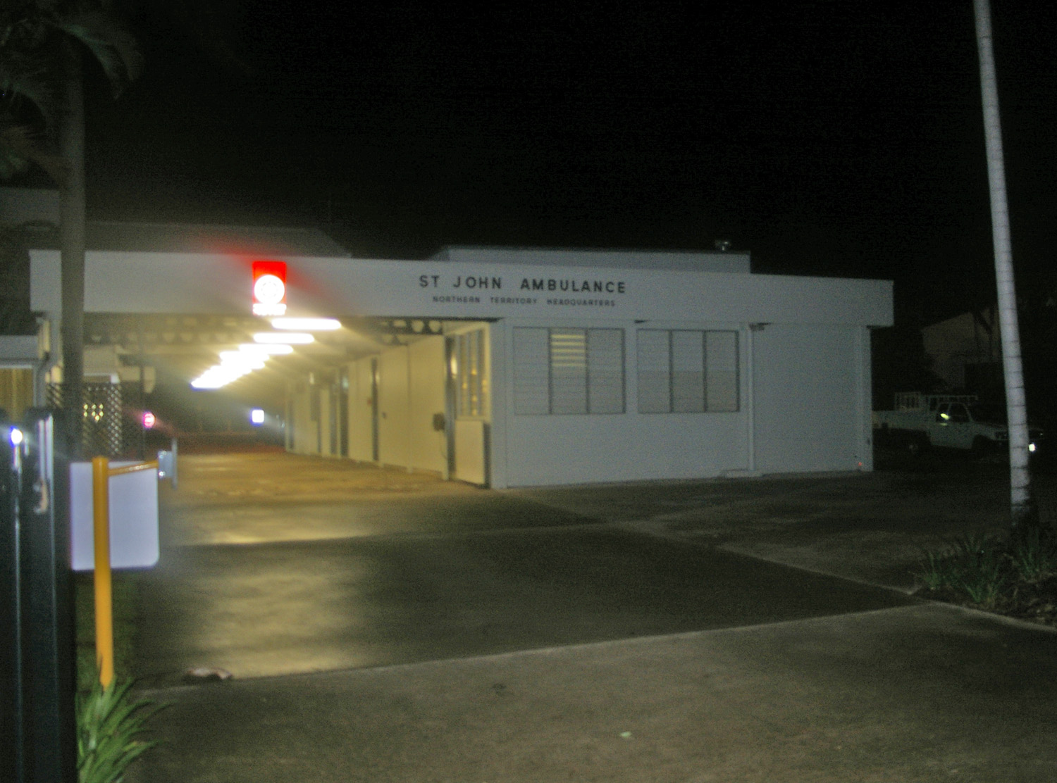 St John Ambulance Northern Territory HQ in Darwin